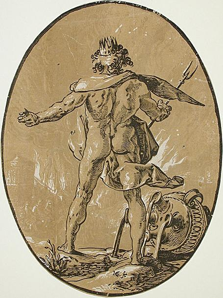 Image depicts a standing nude male figure viewed from behind, crown on his head, brandishing a bident in his right hand, left arm stretched backwards; a jar with several spouts issuing liquid lies behind his right foot.